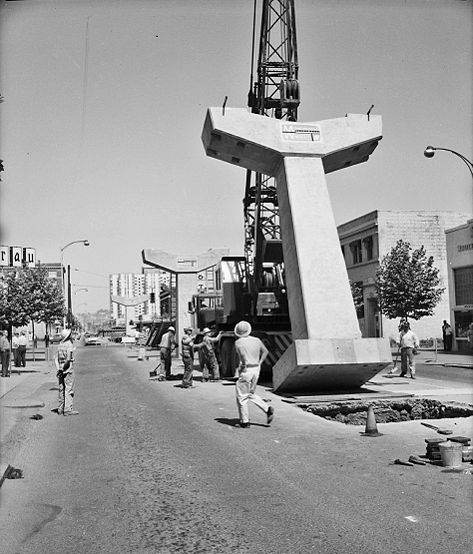 Seattle Monorail under construction, Seattle, Washington 1961, seen from Fifth and Virginia.